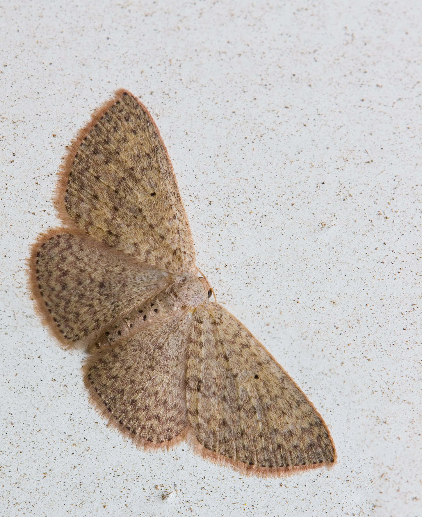 Scopula sp. Camera data Camera Canon EOS 400D Lens Tamron EF 180mm f3.5 1:1 Macro Flash Umbrella Right Focal length 180 mm Aperture f/10 Exposure time 1/125 s Sensivity ISO 200